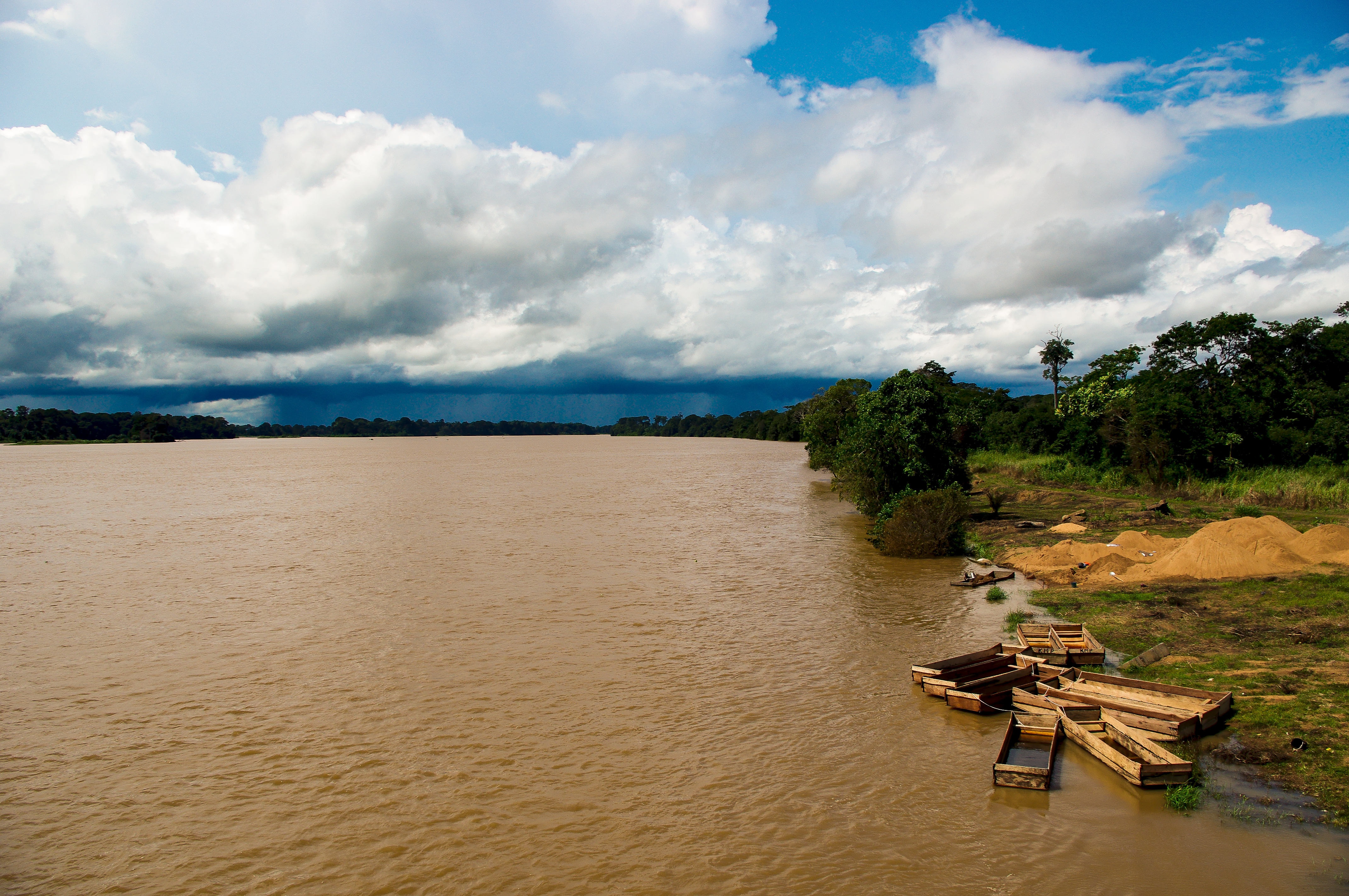 Noun River, Cameroon